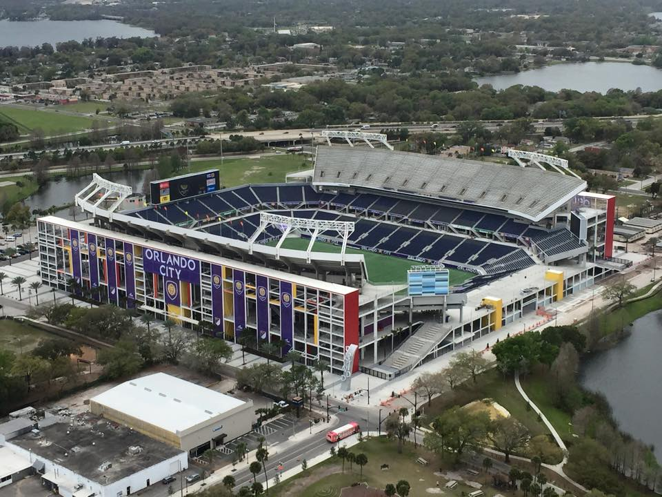 Orlando Citrus Bowl Stadium, prepared for a Orlando City SC match, March 7, 2015.